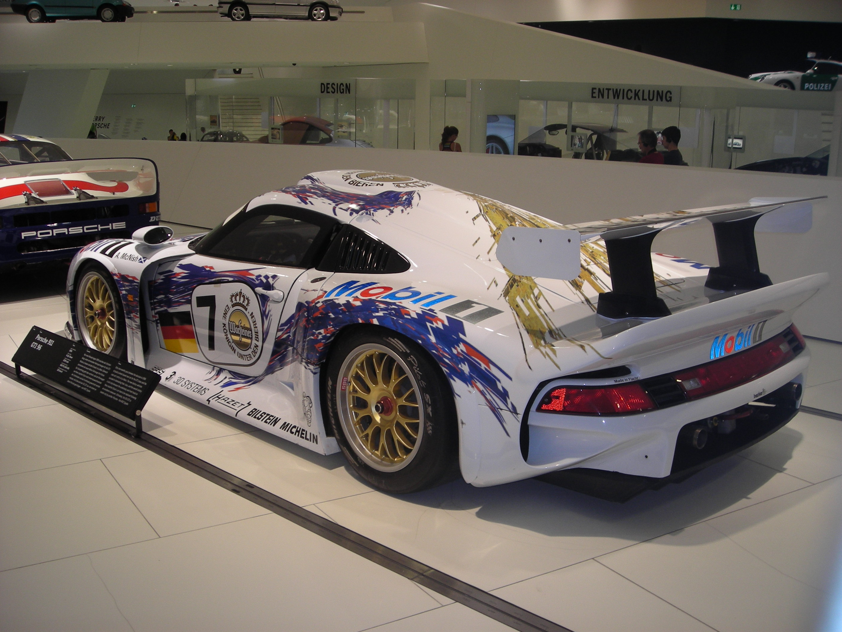 Porsche 911 GT1 1996 of Allan Mcnish in the Porsche Museum at Stuttgart